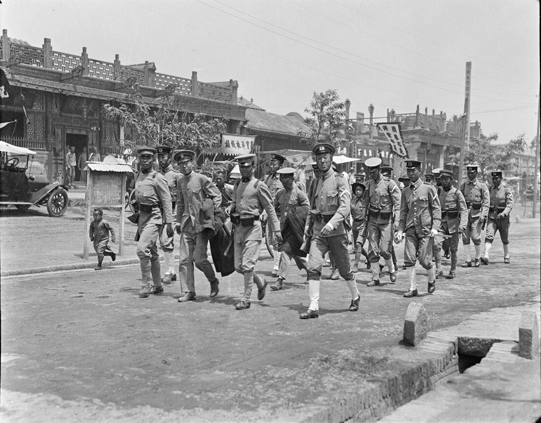 Photo from Peking, a social survey conducted under the auspices of the Princeton university center in China and the Peking Young men's Christian association (1921)